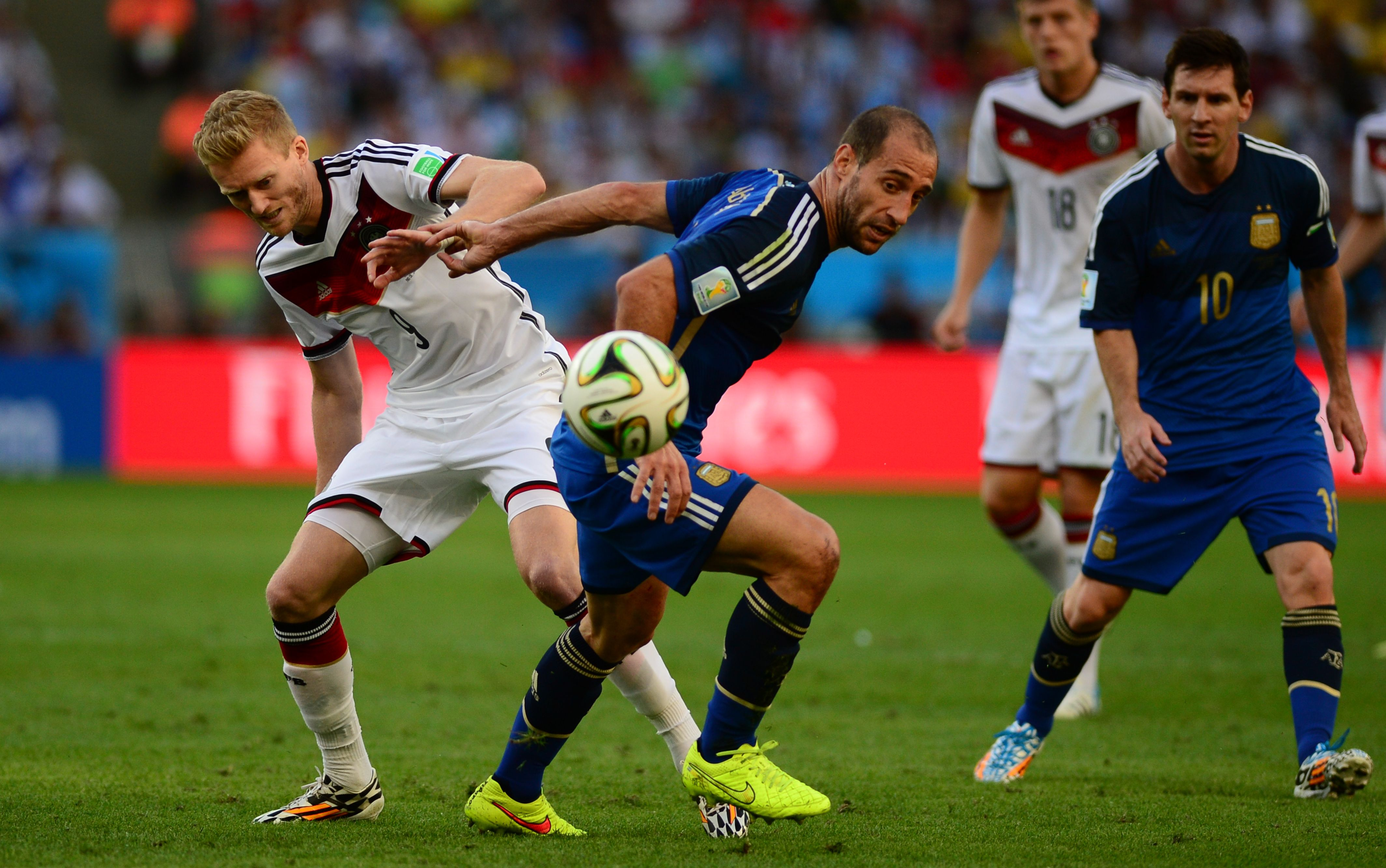 Germany and Argentina face off in the final of the World Cup